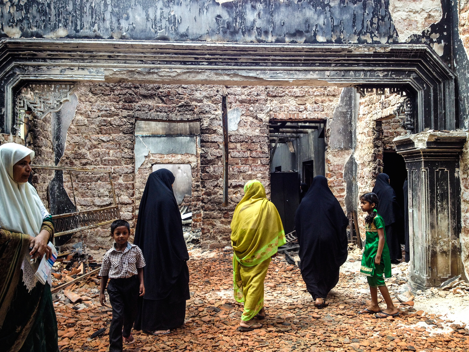 IMG_9058 Photos around the aftermath of the violence against the Muslim community in Aluthgama, Sri Lanka in June 2014.